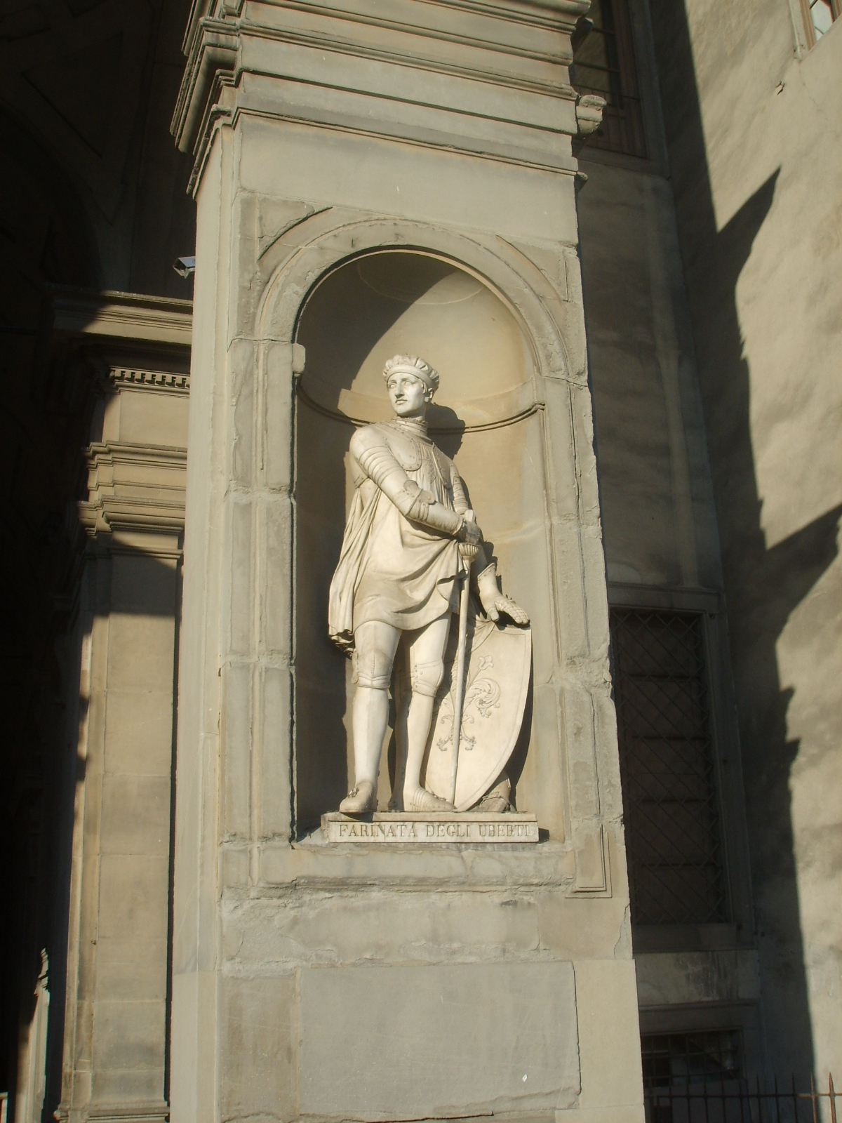 Statues at the Uffizi, on the facade of the Gallery building. Famous florentines: Farinata degli Uberti. .